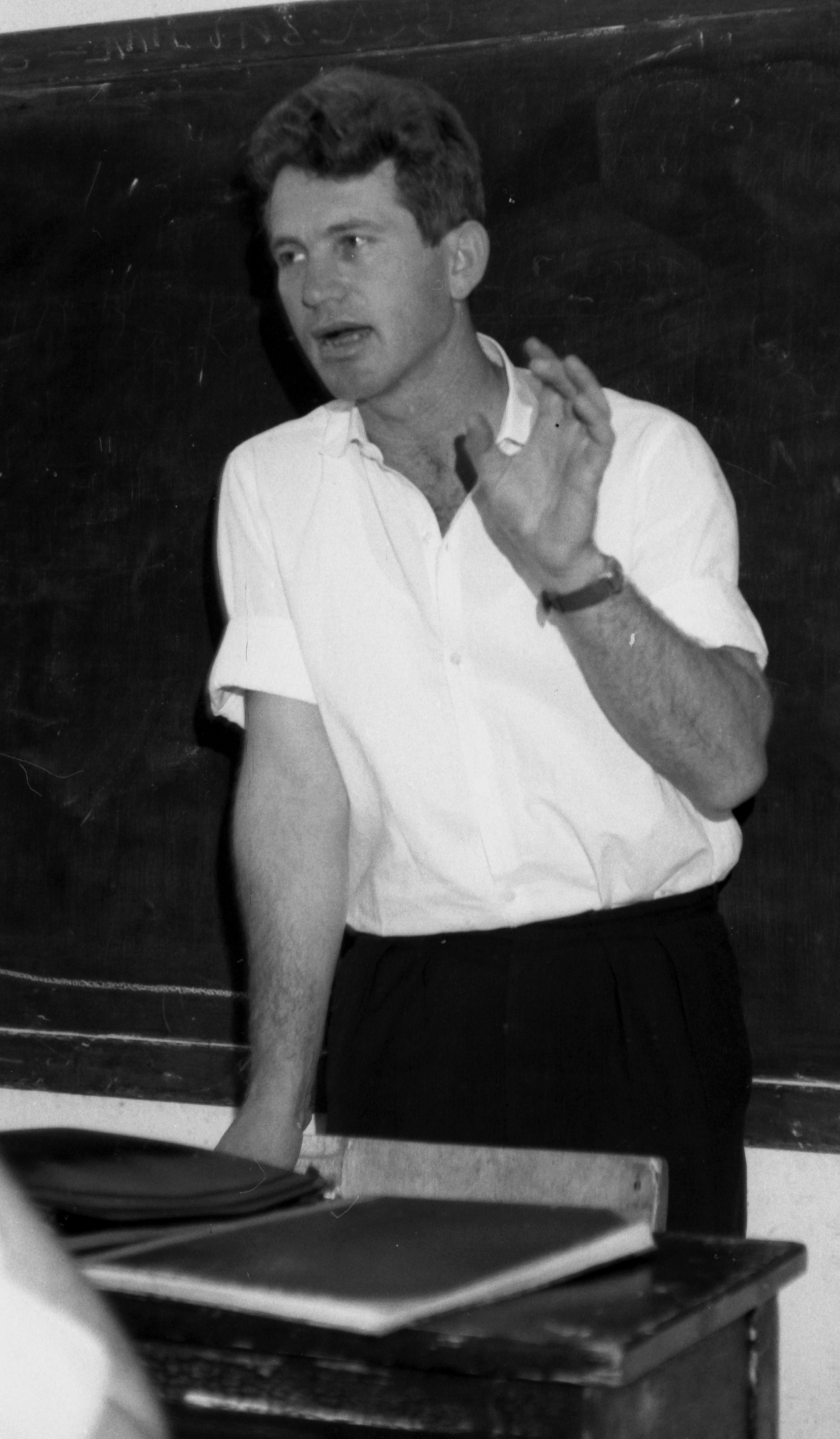 Israeli literature theorist Josef HaEfrati (approx 1966). Photo taken in lesson, Gymnasia Rehavia secondary school, Jerusalem